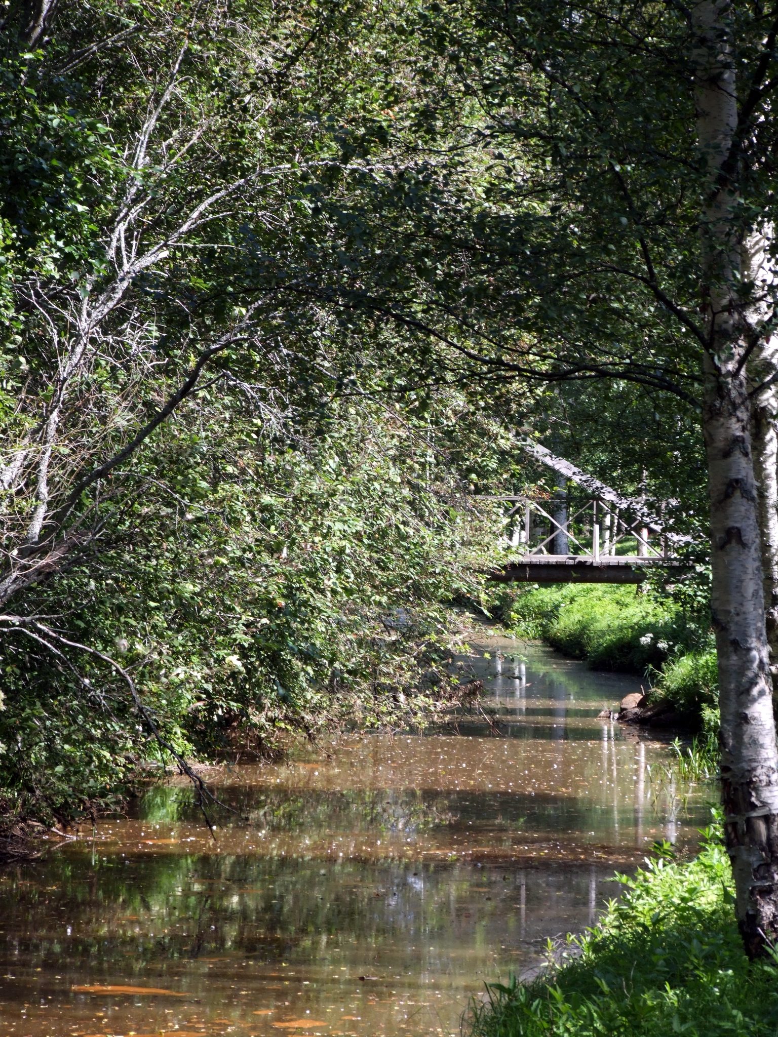 The river Liminganjoki in Liminka, Finland.